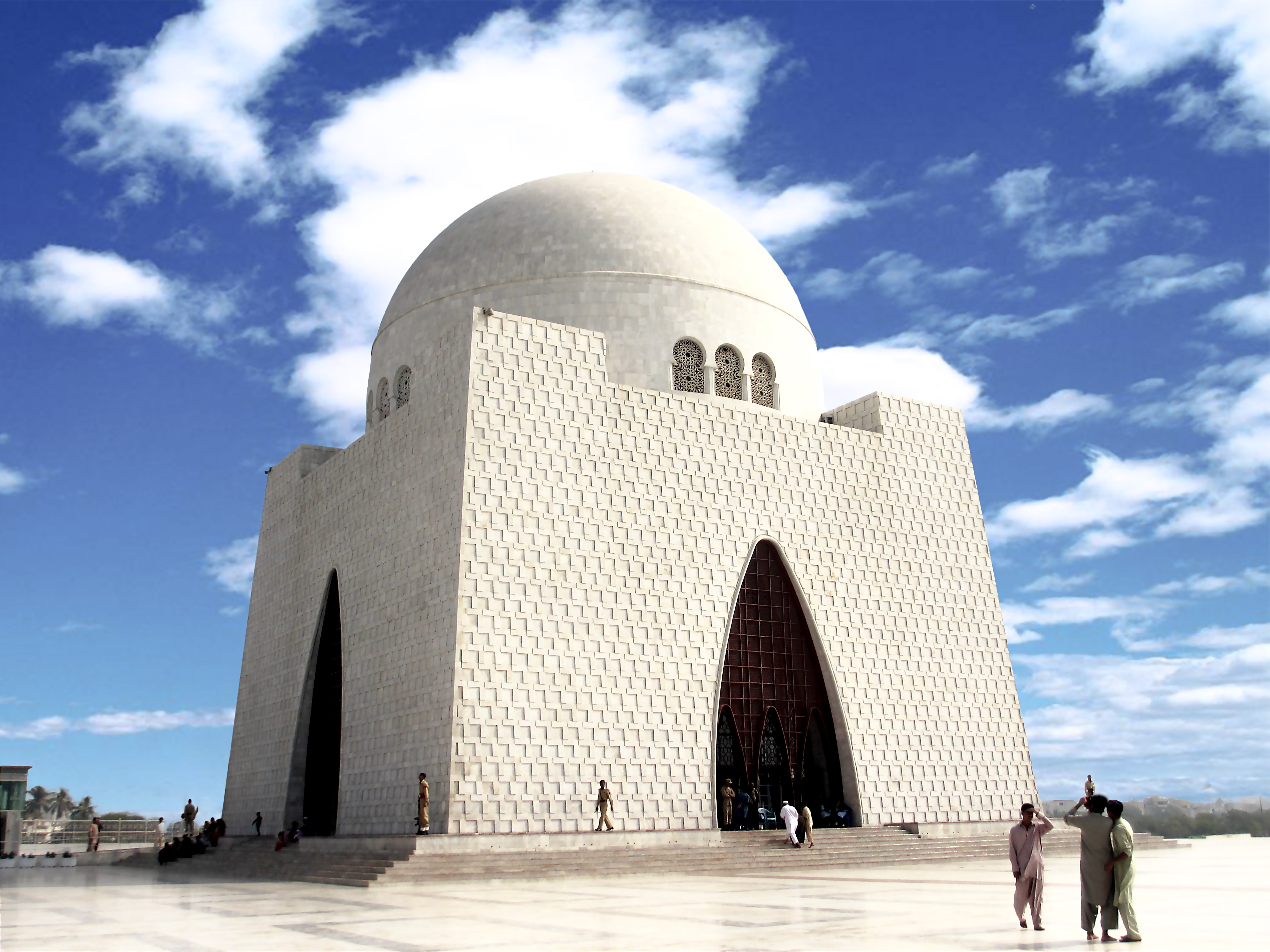 Jinnah Mausoleum is located in Karachi, Pakistan. It is also know as Mazaar e Quaid. It is the final rest place of Great leader Muhammad Ali Jinnah, Founder of Pakistan